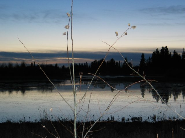 Elk Island National Park in Alberta, Canada. The picture was taken in October 2004.